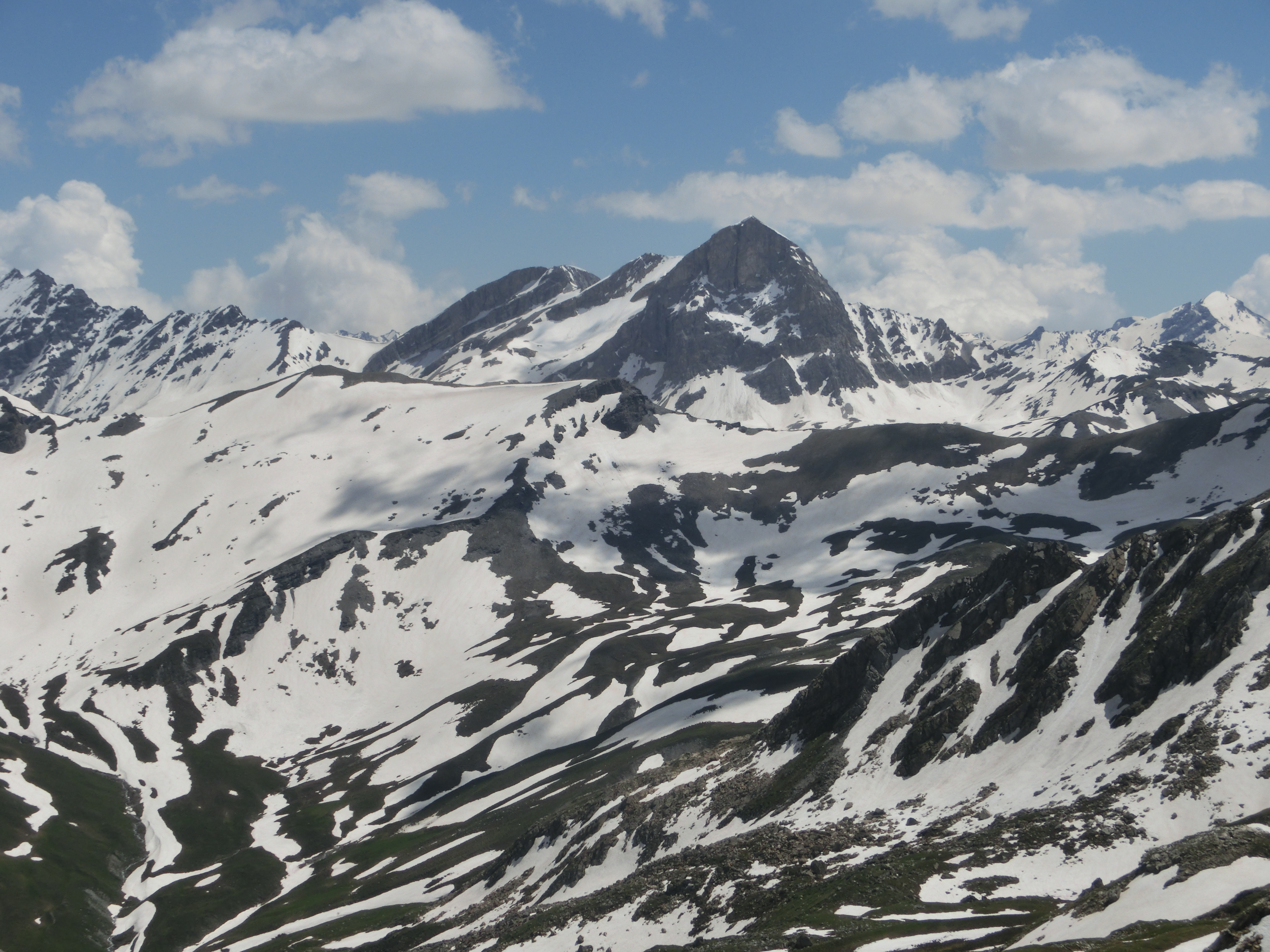 Wissberg, picture taken from Piz Settember, Riom-Parsonz, Ferrera, Grison, Switzerland